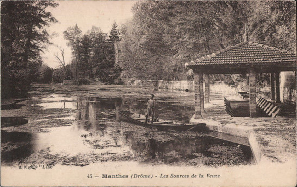 Postcard, showing the pond of the springs of Veuze river in Manthes (Drôme)